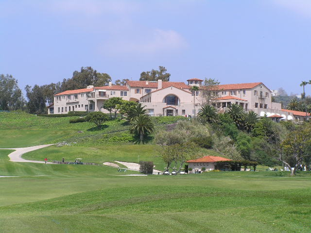 Full review of Riviera Country Club on my blog.